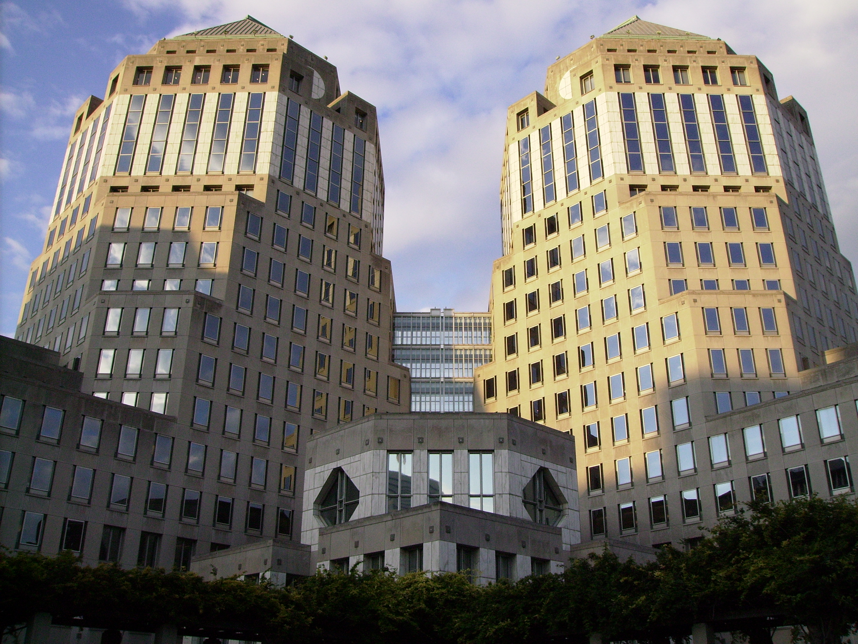 P & G Twin Towers Downtown Cincinnati OH Keith Lanser November 2006